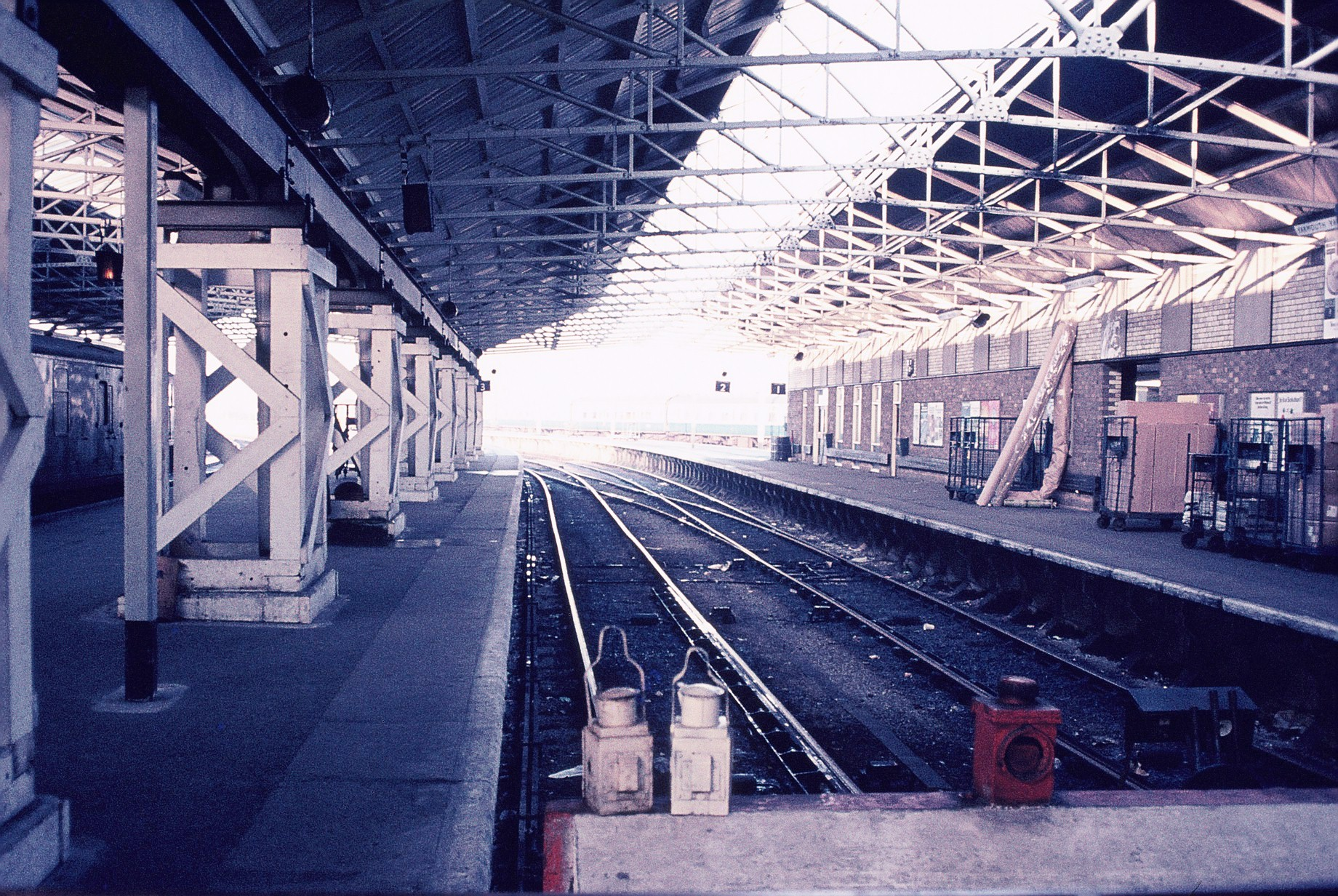 Red star parcels platforms at Great Yarmouth railway station.